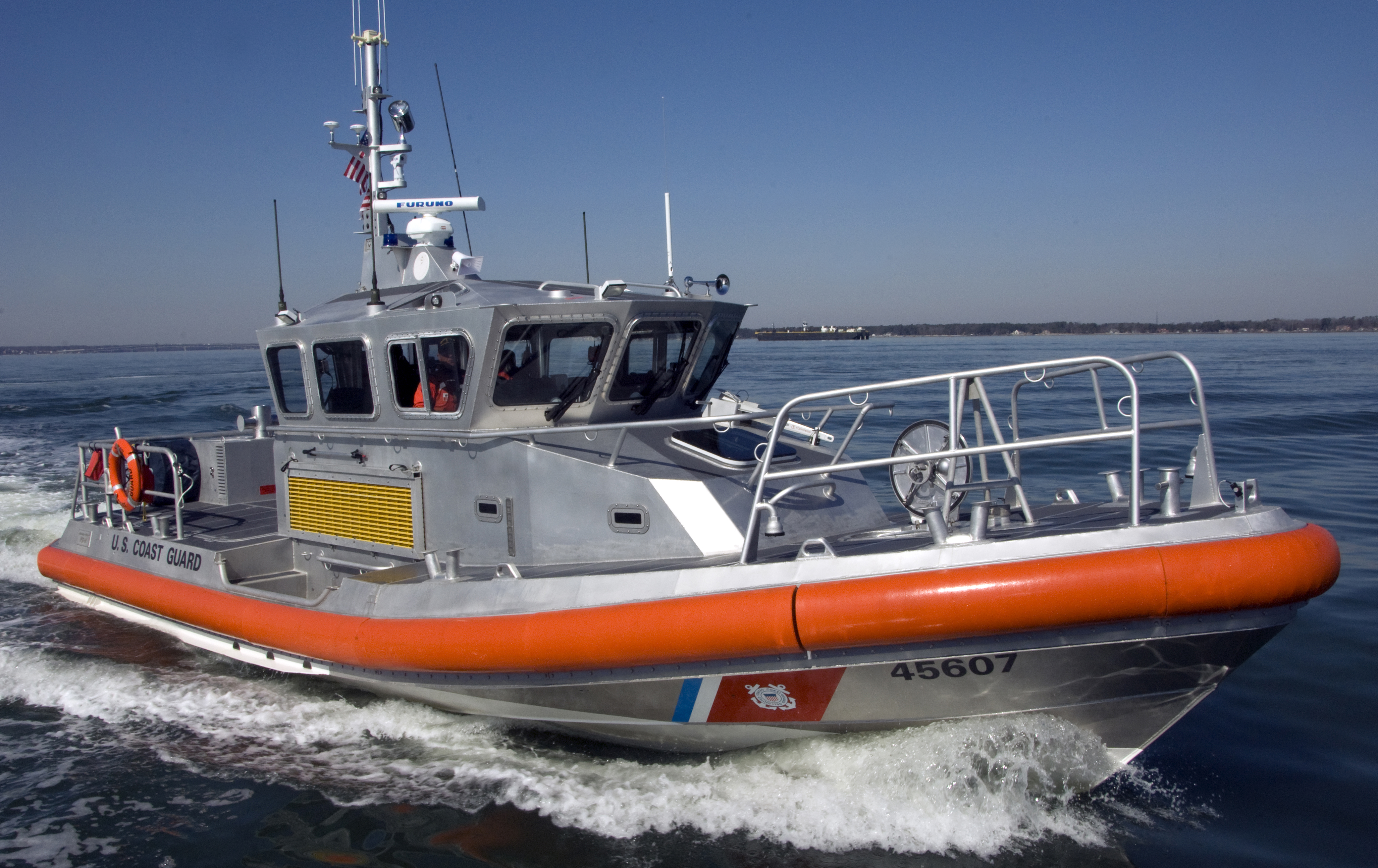 YORKTOWN, Va. - Coast Guard Training Center Yorktown unveils its new response boat at the Boat Forces Center Thursday, March 5. The 45-foot response boat will be replacing the 41-foot utility boat that has been in service for more than 30 years.